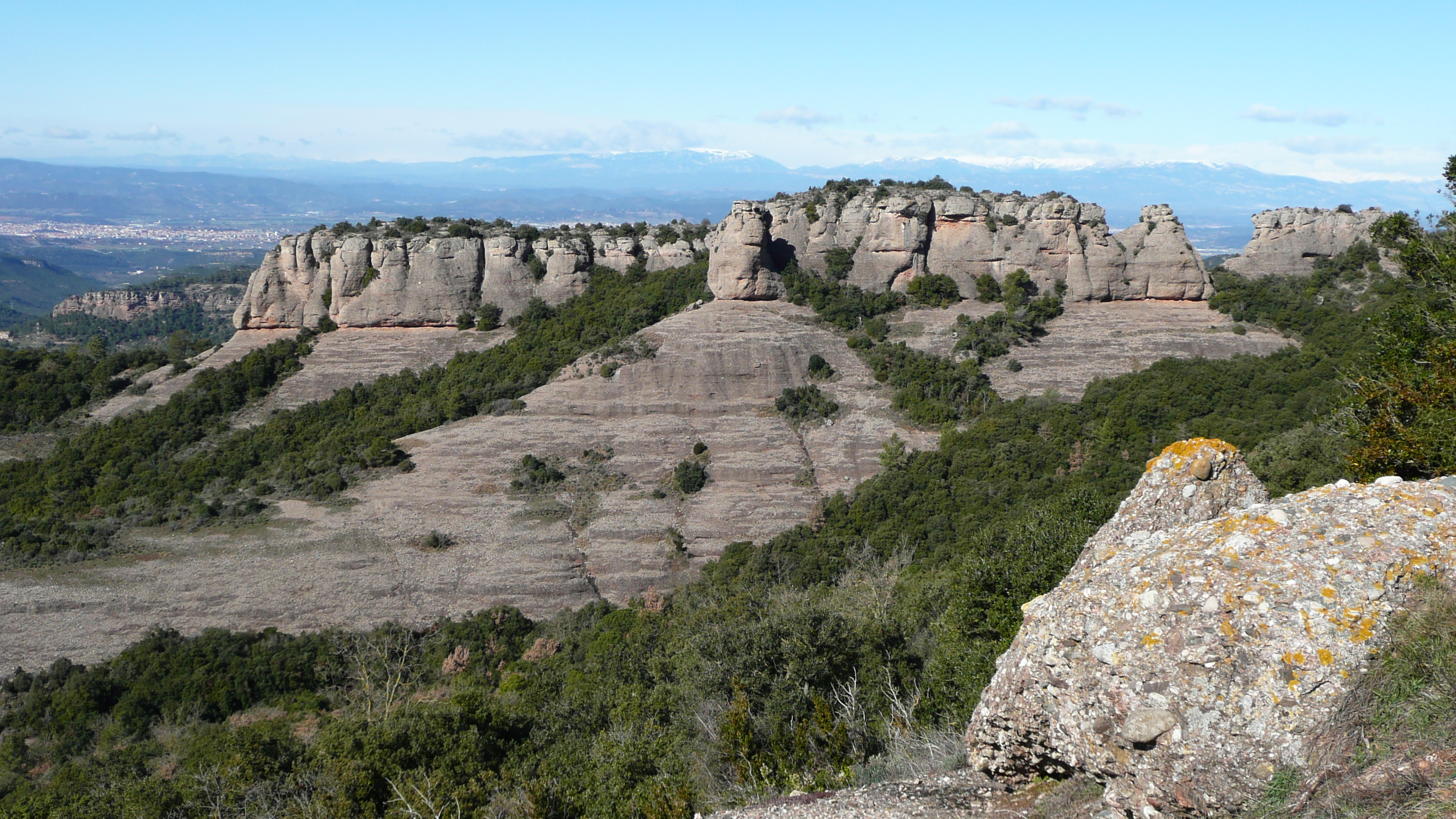 L'Obac mountain range landscape. Sant Llorenç del Munt i l'Obac natural park, Barcelona, Spain.